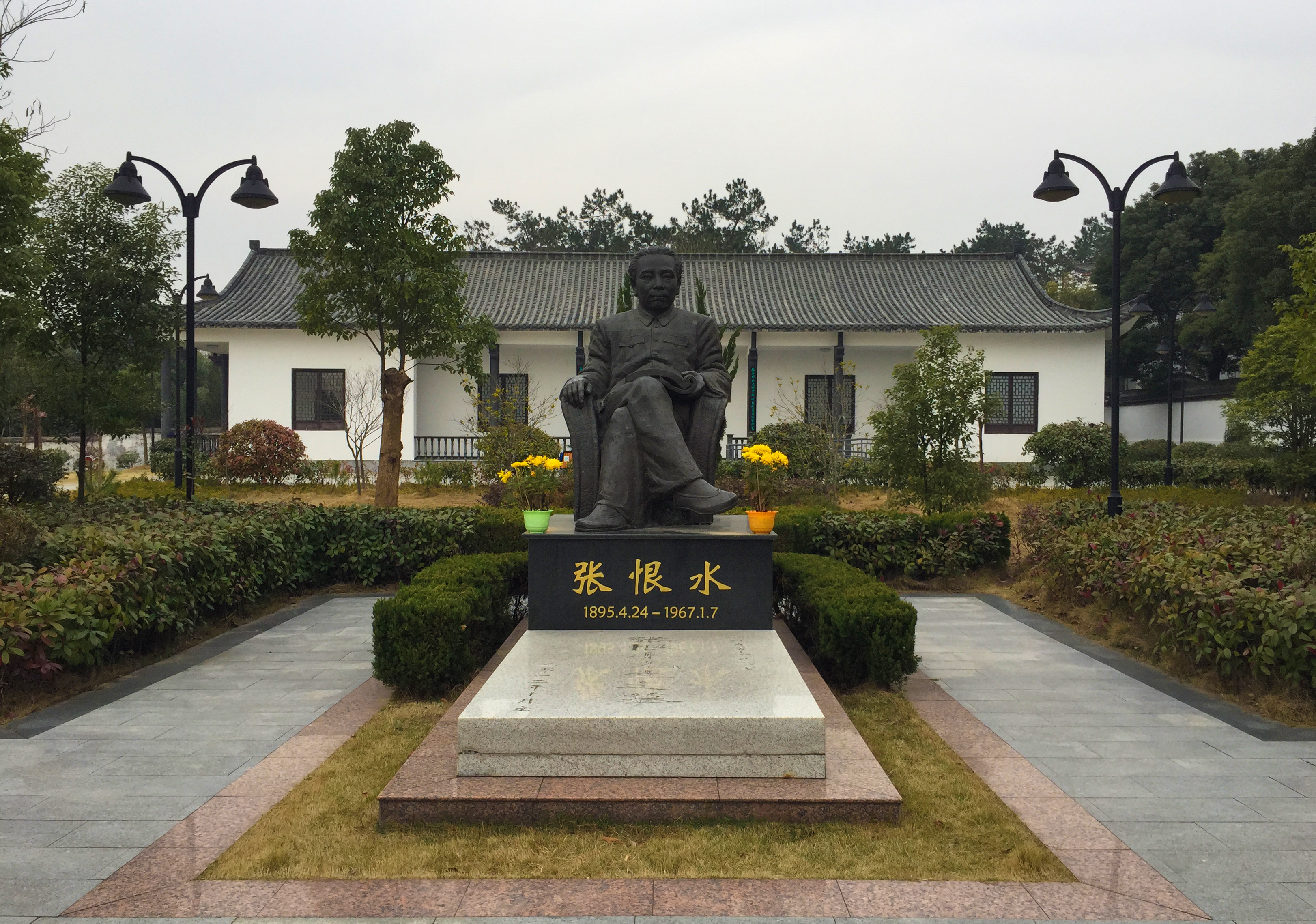 Zhang Henshui Memorial Hall is within the museum of Qianshan. His grave was moved to the front of his statue in October 2012.